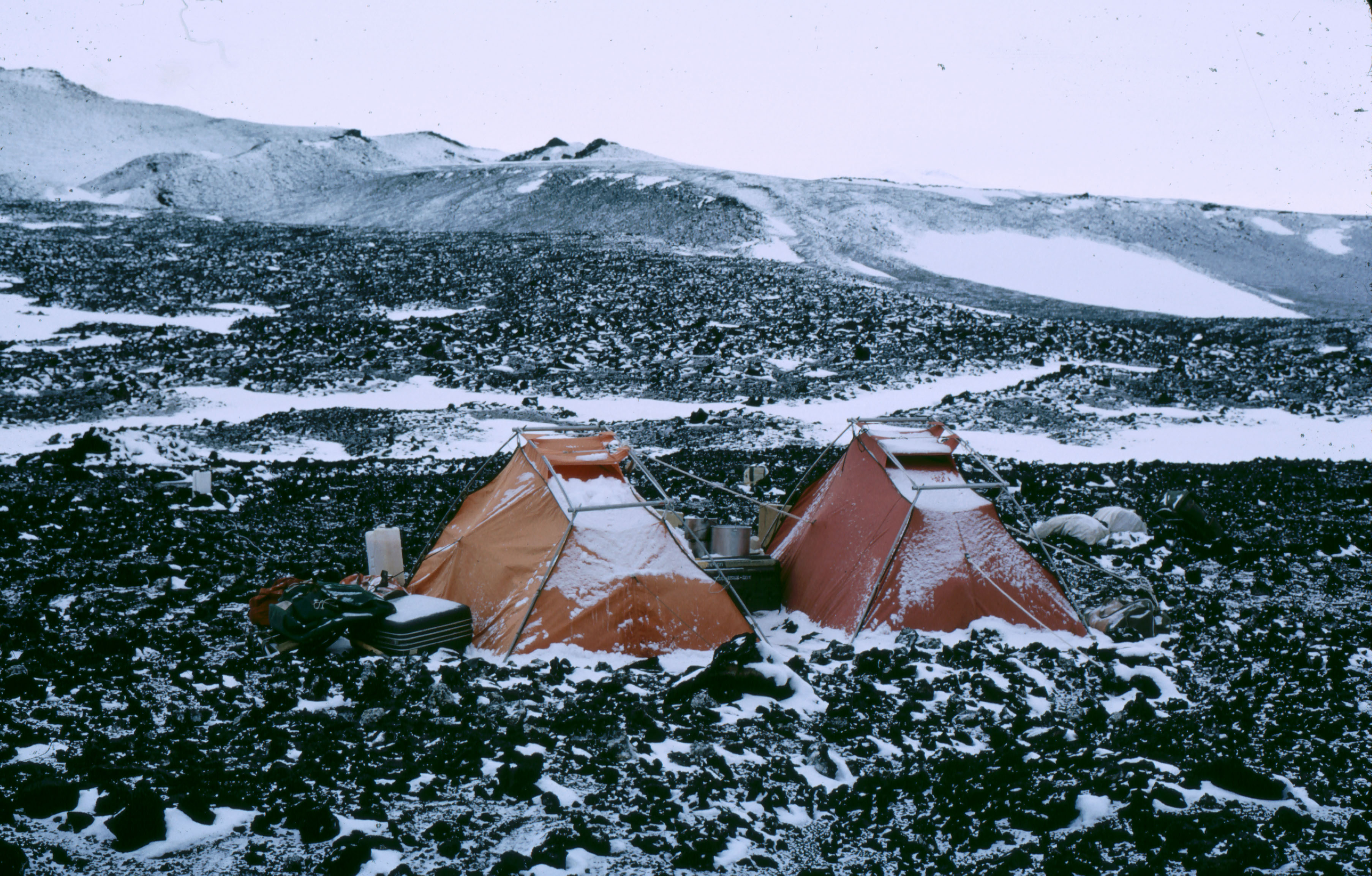 Tents of scientists during the Antarctic summer, Antarctica.